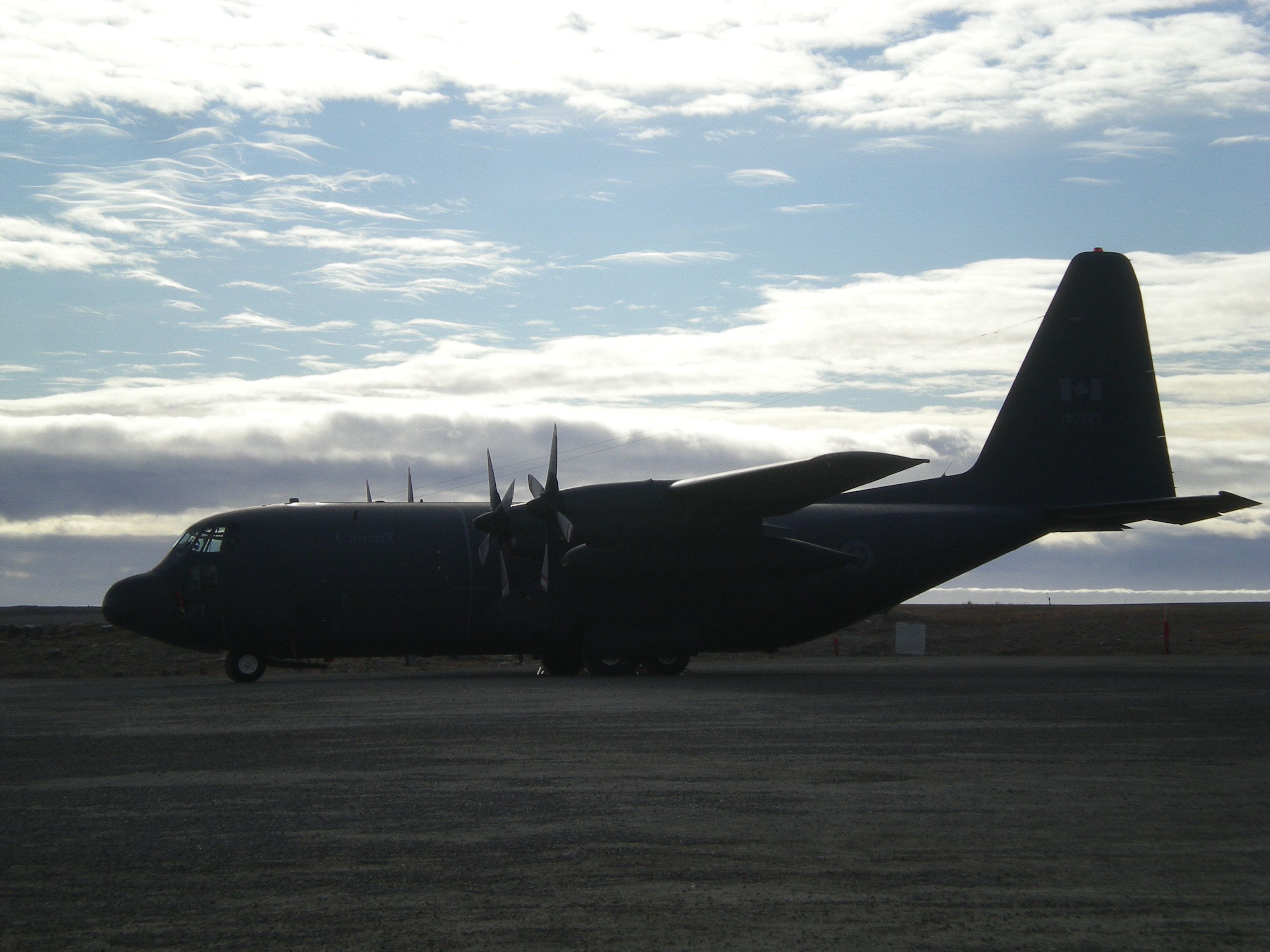 Canadian Forces C130 at Cambridge Bay Airport